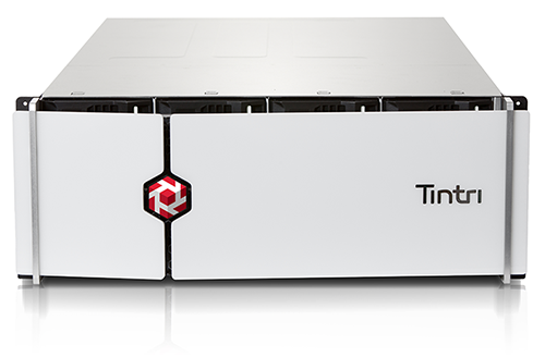 Tintri VMstore T880